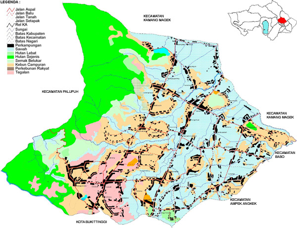 Map of Tilatang Kamang district, Agam Regency